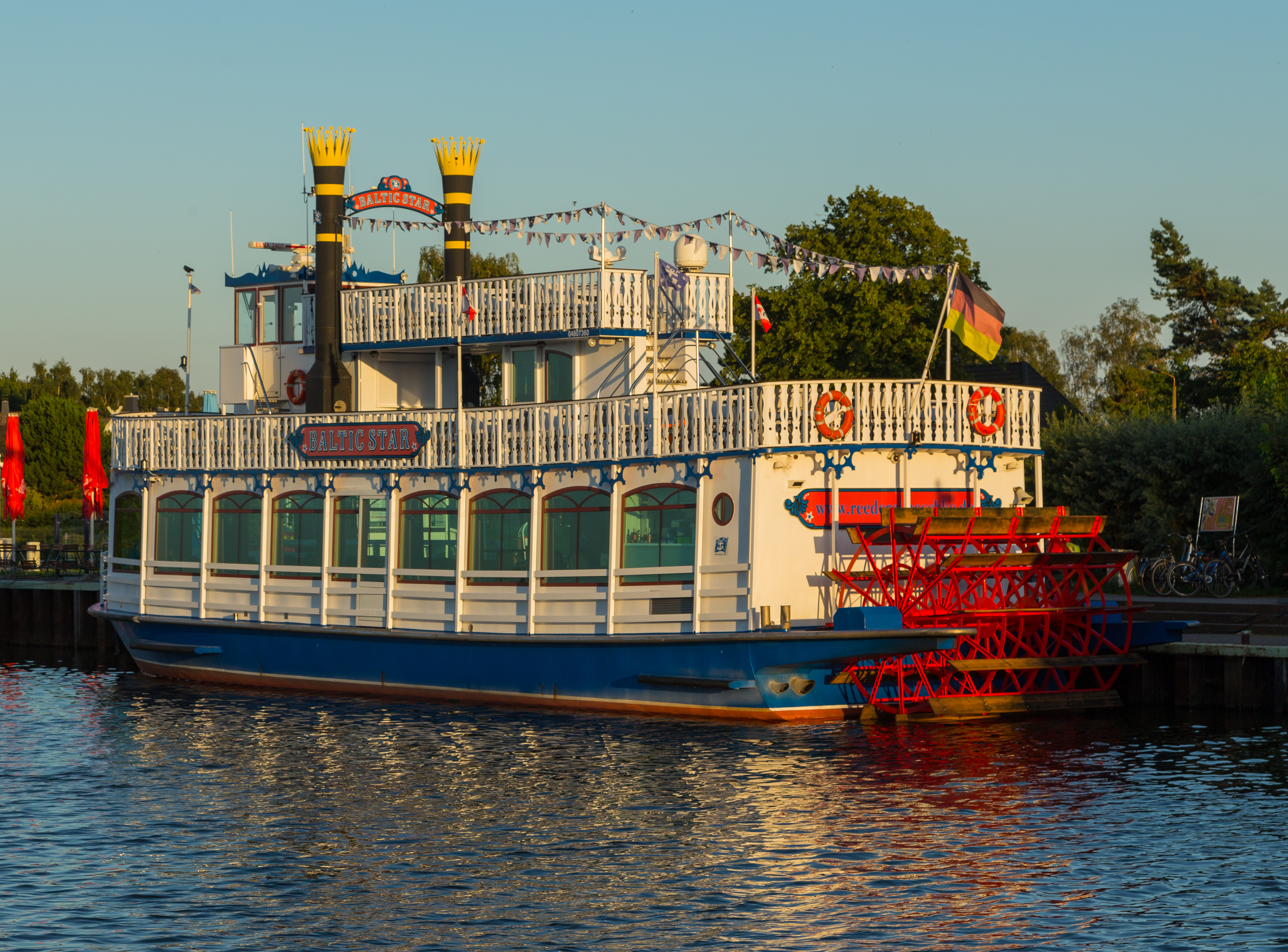 The passenger ship Baltic Star at the harbour of Prerow, Landkreis Vorpommern-Rügen, Mecklenburg-Vorpommern, Germany.